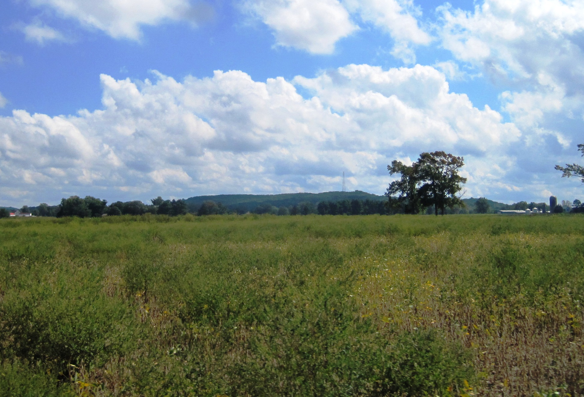 Photo of Arney's Mount in Springfield Township, Burlington County, New Jersey as seen from Monmouth Road (CR 537). It is the highest point in Burlington County.